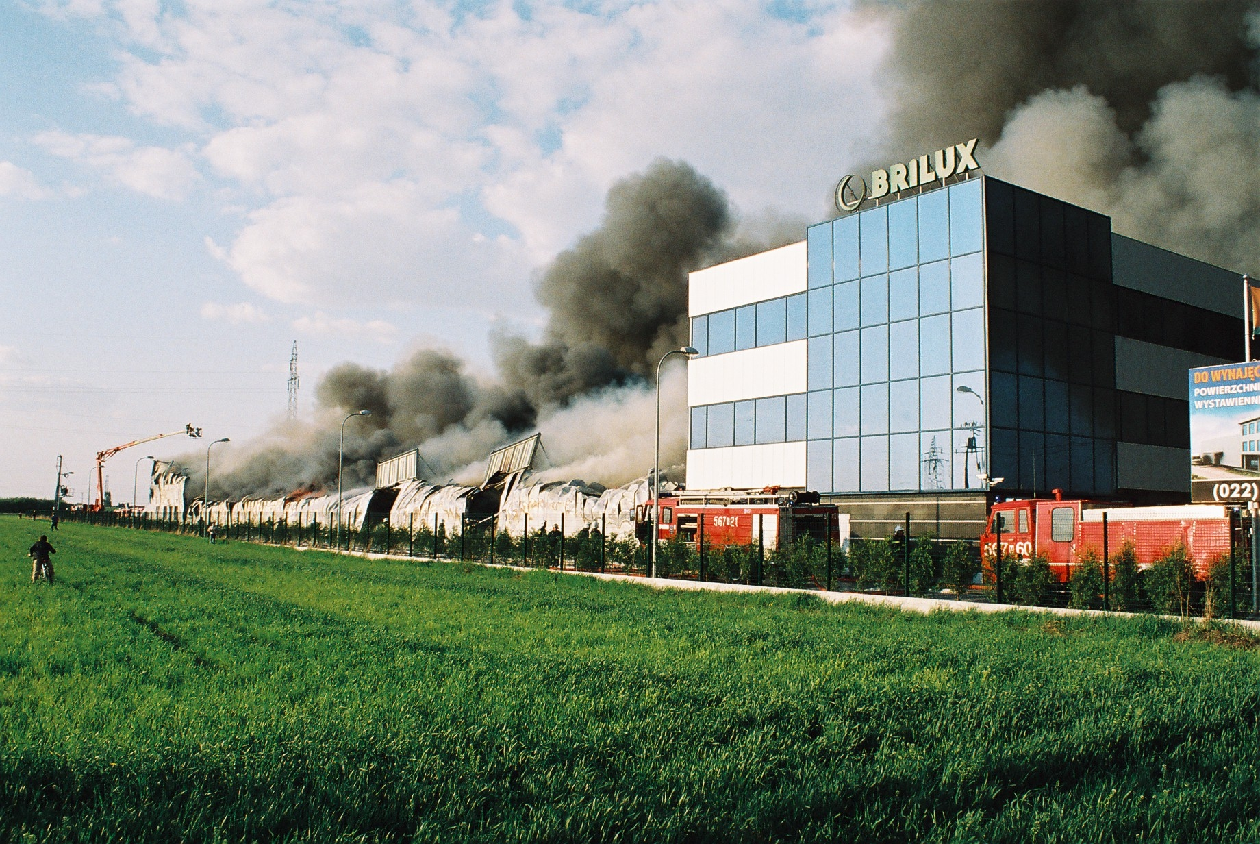 Fire. The company "Brilux". Stara Iwiczna near Piaseczno. Poland